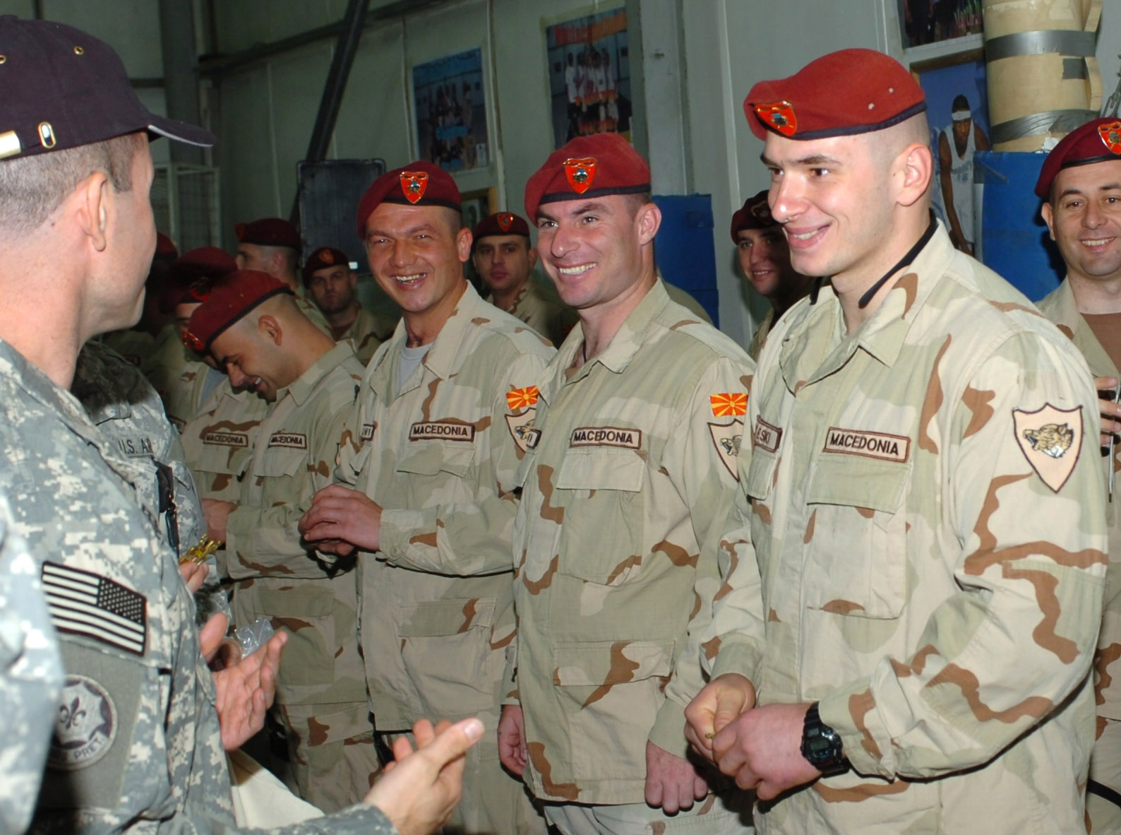 Macedonian army